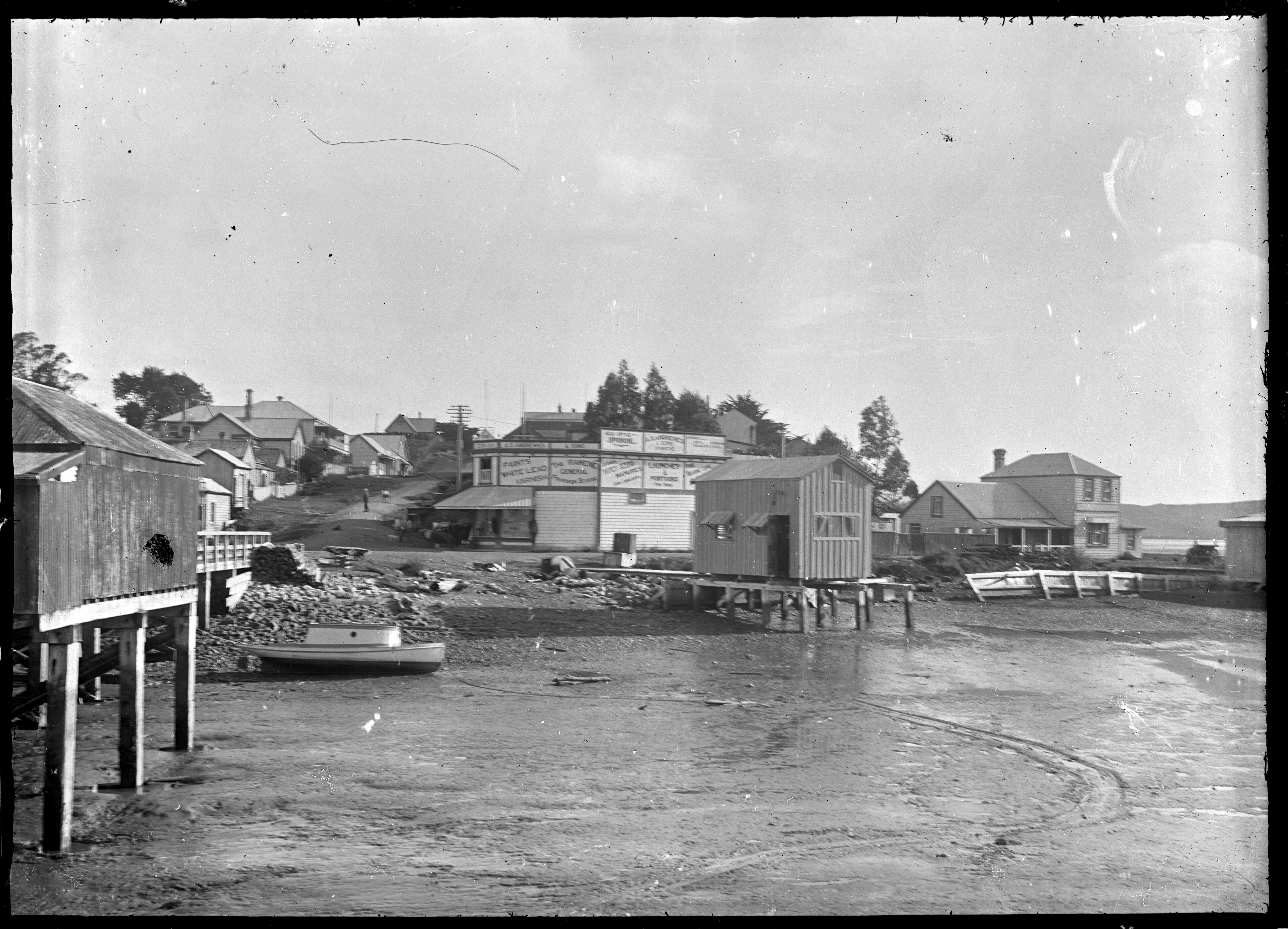 View of Rawene, looking back at a wharf, a street going up a hill, with A S Andrewes & Sons general store in the centre. There is a large house on the waterfront on the right. Photograph taken by Albert Percy Godber, in 1918.